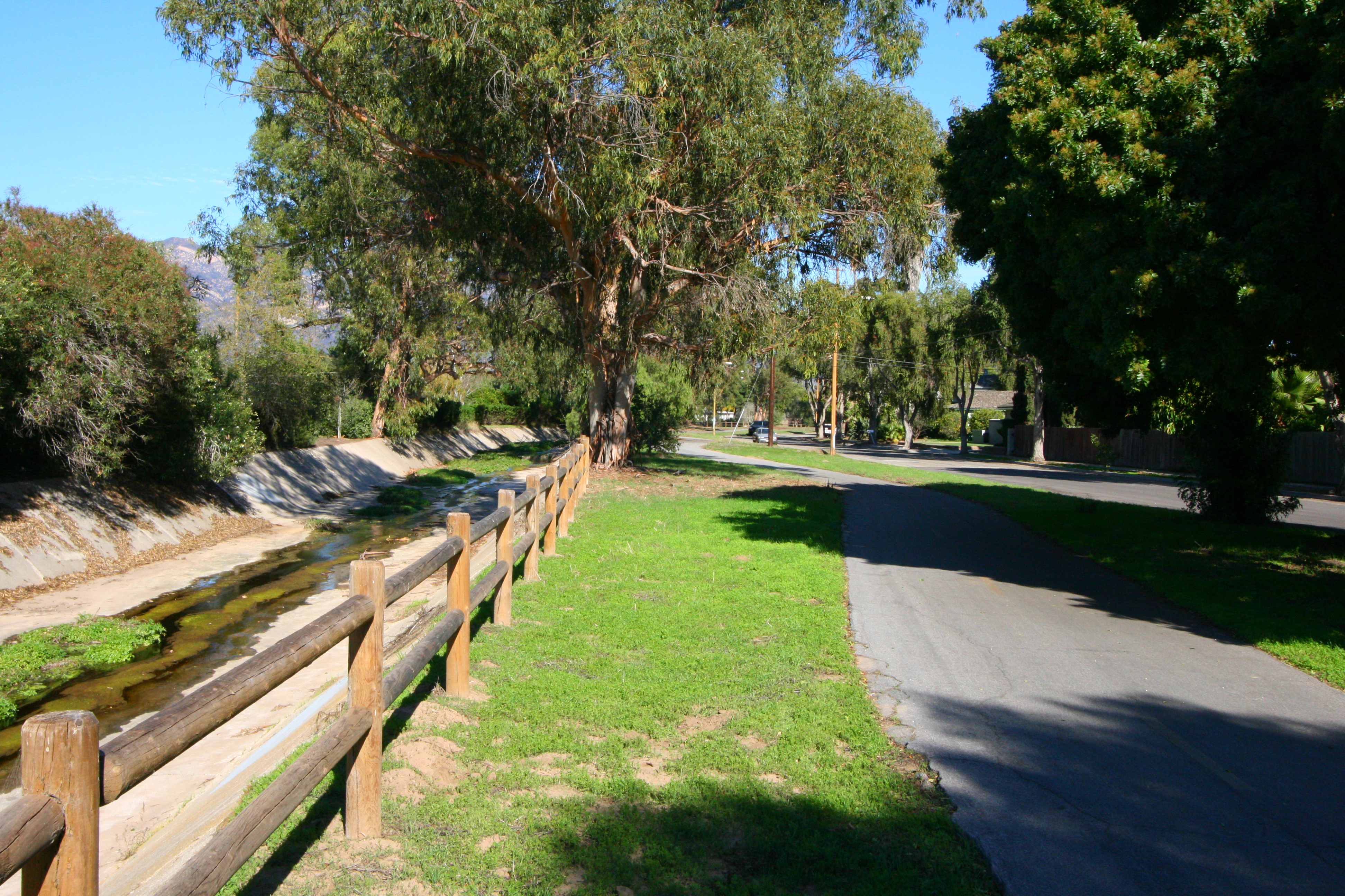 This view of Atascadero Creek is looking east from Puente Street in Santa Barbara, California. This nature trail is popular with pedestrians, cyclists and equestrians alike. It runs from Modoc Road to Highway 217 in Goleta.